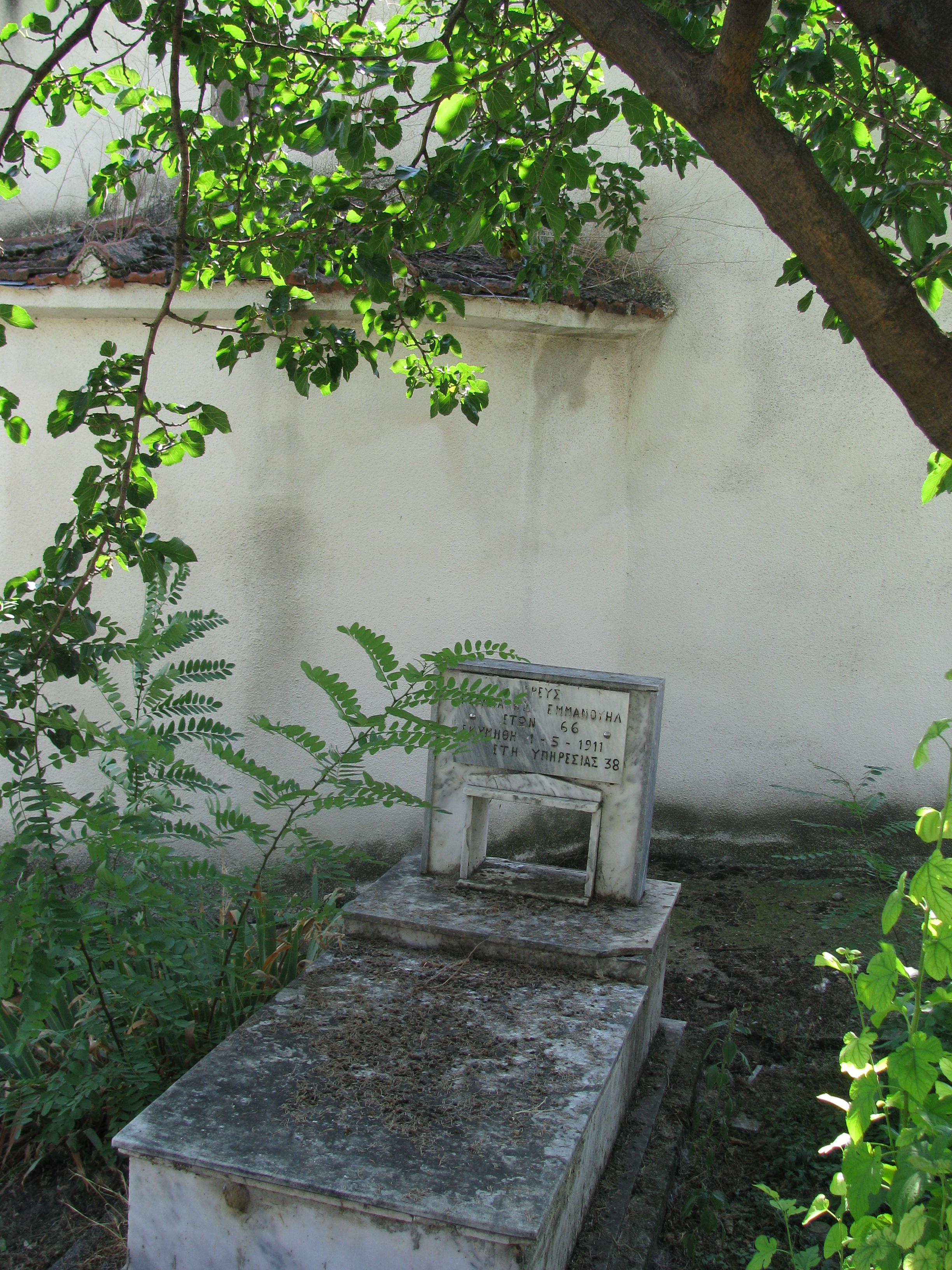 grave of Emanuil Stamatiadis, Village of Todortsi or Teodoraki, Pella prefecture, Greece